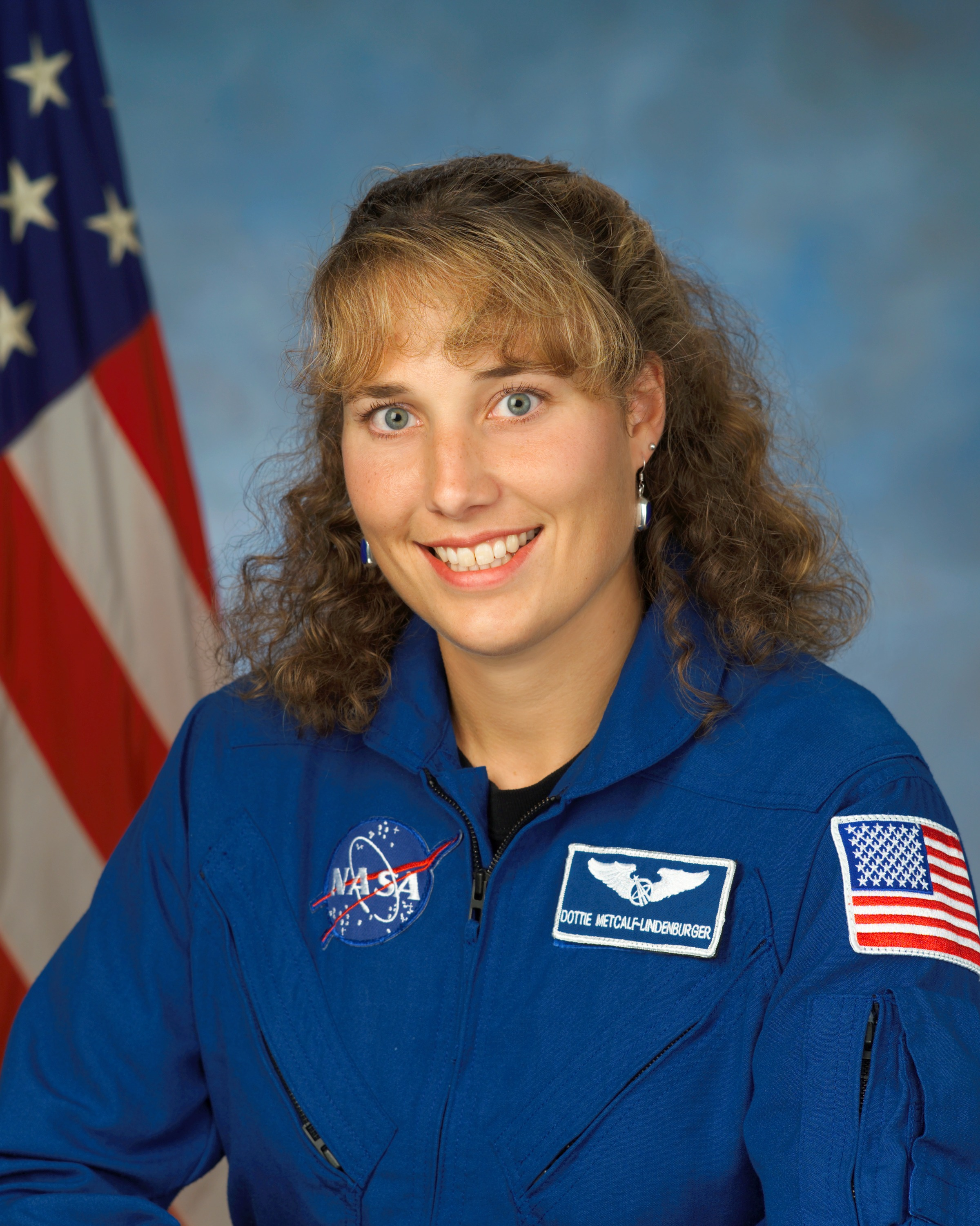 Dorothy M. (Dottie) Metcalf-Lindenburger, mission specialist-educator candidate in NASA’s 2004 class of astronauts.""